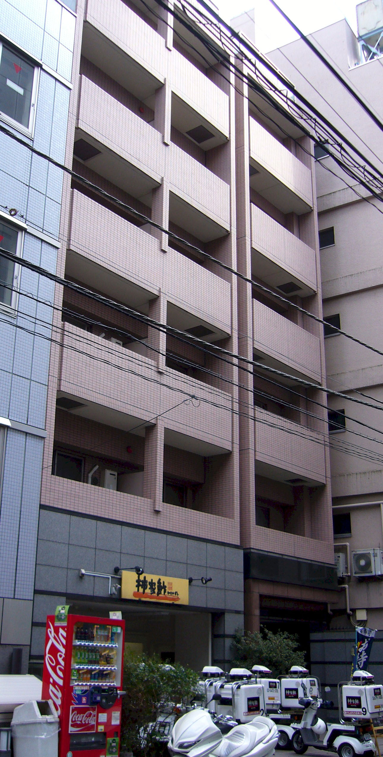 Casa Hanajima (Apartment house in Tokyo, Japan)